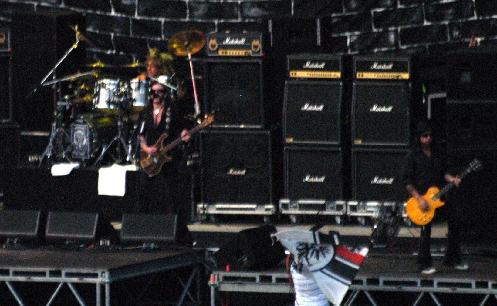 Cropped from this image